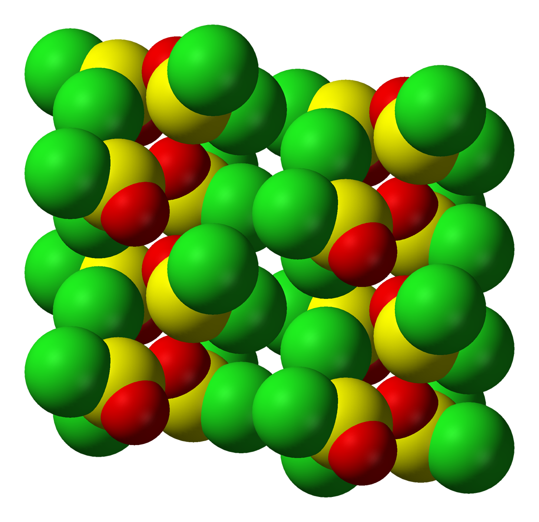 Space-filling model of part of the crystal structure of thionyl chloride, SOCl2. Single crystal X-ray diffraction data from Acta Cryst. (1988). C44, 926-927.